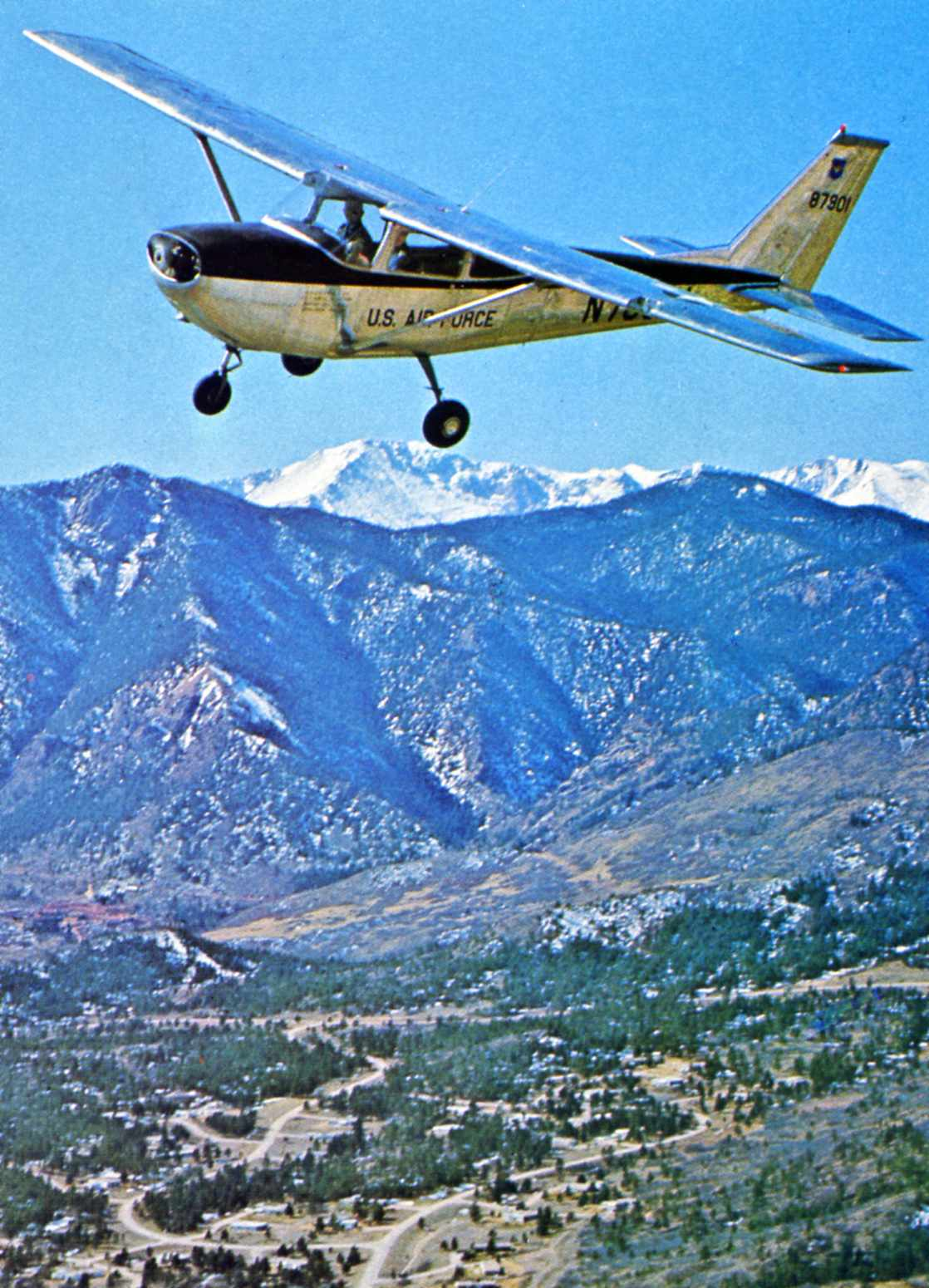 United States Air Force Academy Cessna T-41 Mescalero fin tail number 87901 used by the cadets for flight training.